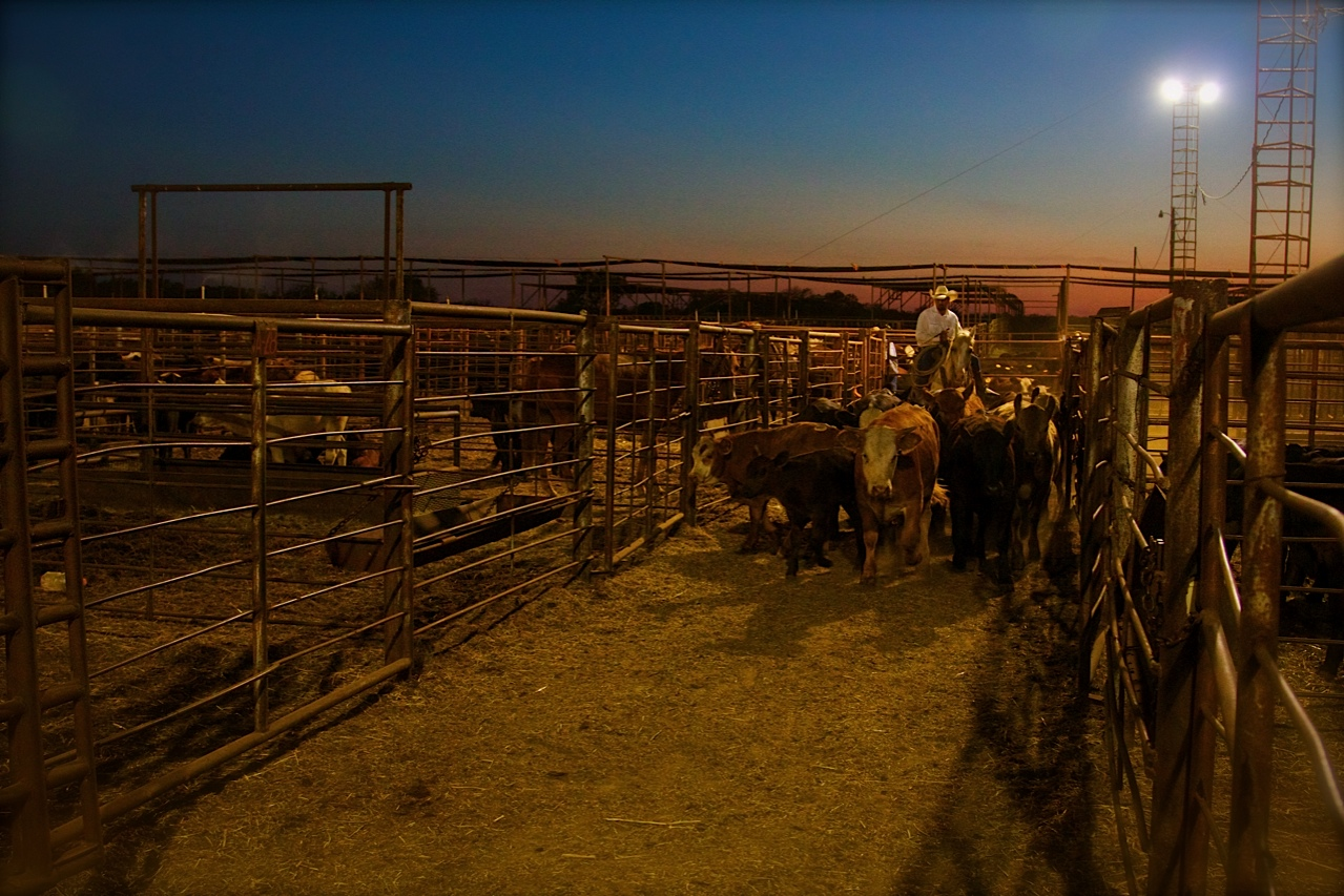 At the local cattle auction in Comanche they have seen a steady increase in the number of coming through its gates over the last months.